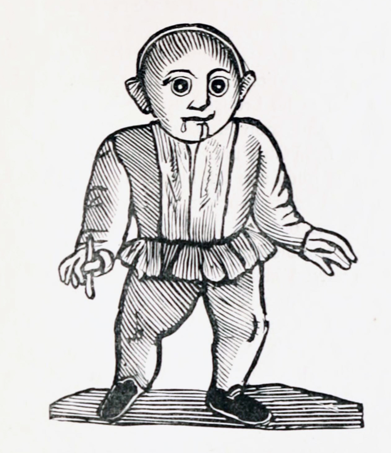 Illustration from an 18th century chapbook reproduced in Chap-books of the eighteenth century by John Ashton (1834).